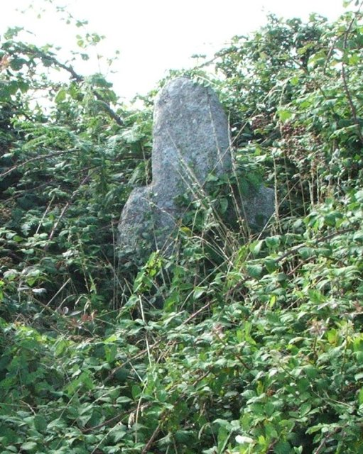 Tremethick Cross. Half-hidden in the summer's bramble growth, this granite cross located high in a hedge near a junction has reportedly given motorists a scare when it's been caught in car headlights.